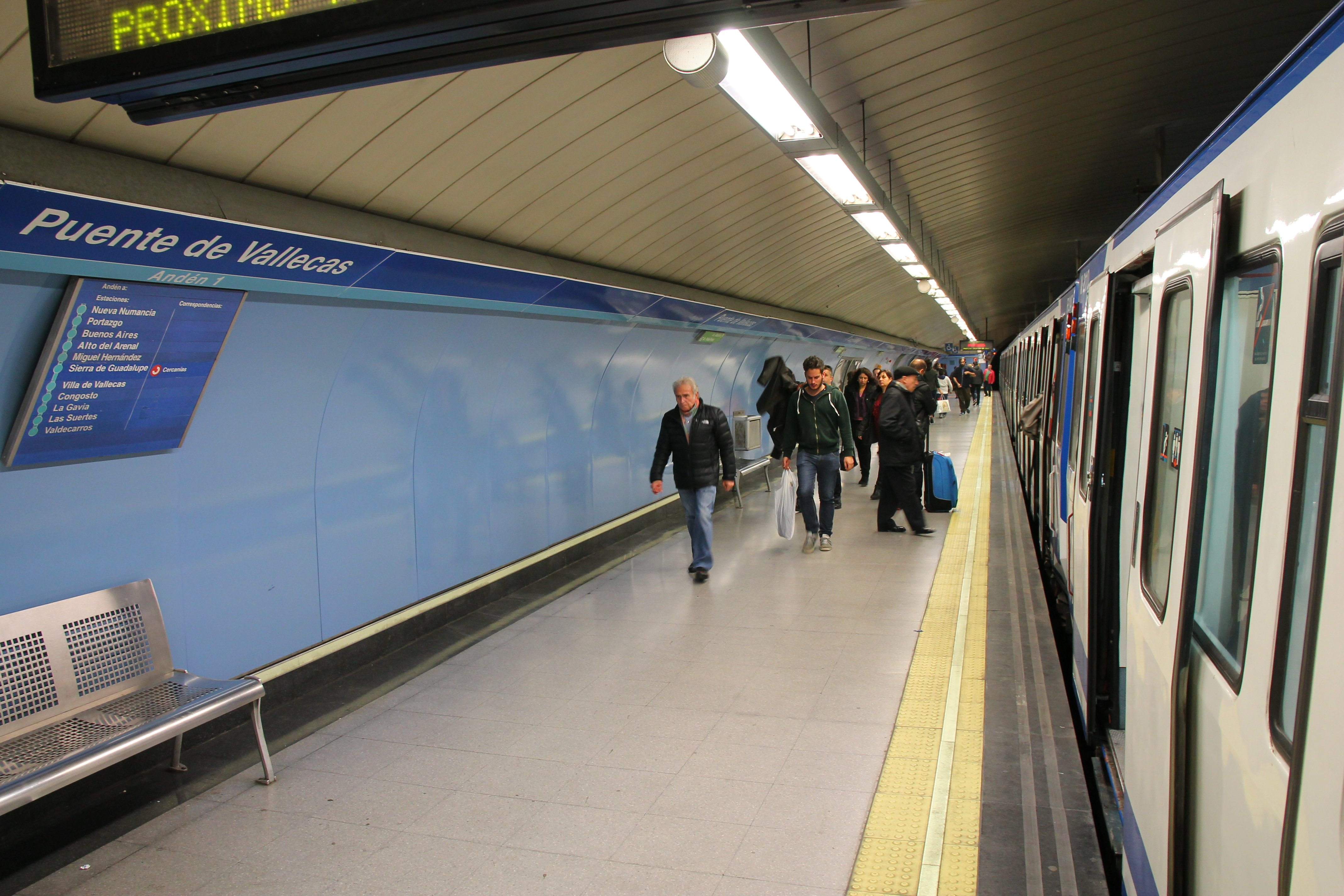 Puente de Vallecas station. Madrid Metro.